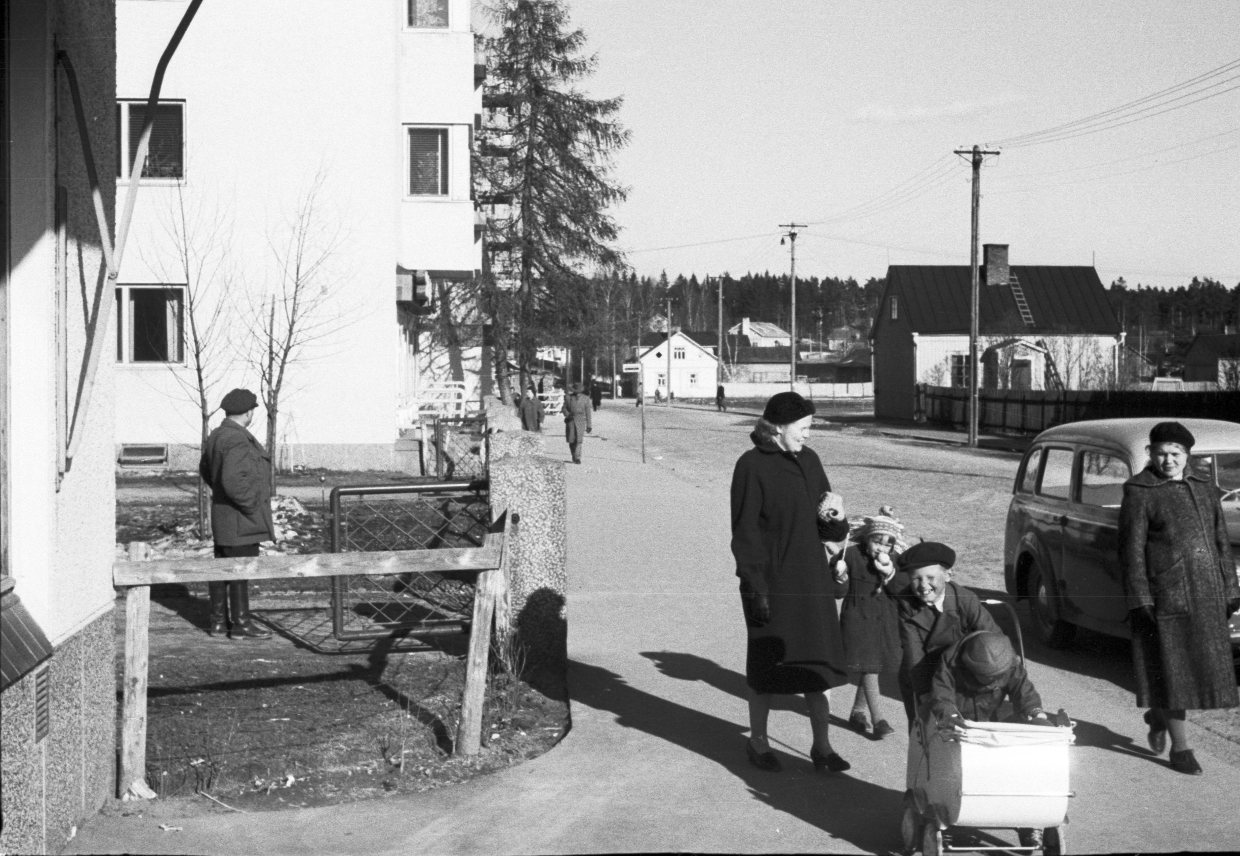 A street view of Voionmaakatu, Jyväskylä. Taken near the building of Voionmaankatu 30 towards south.